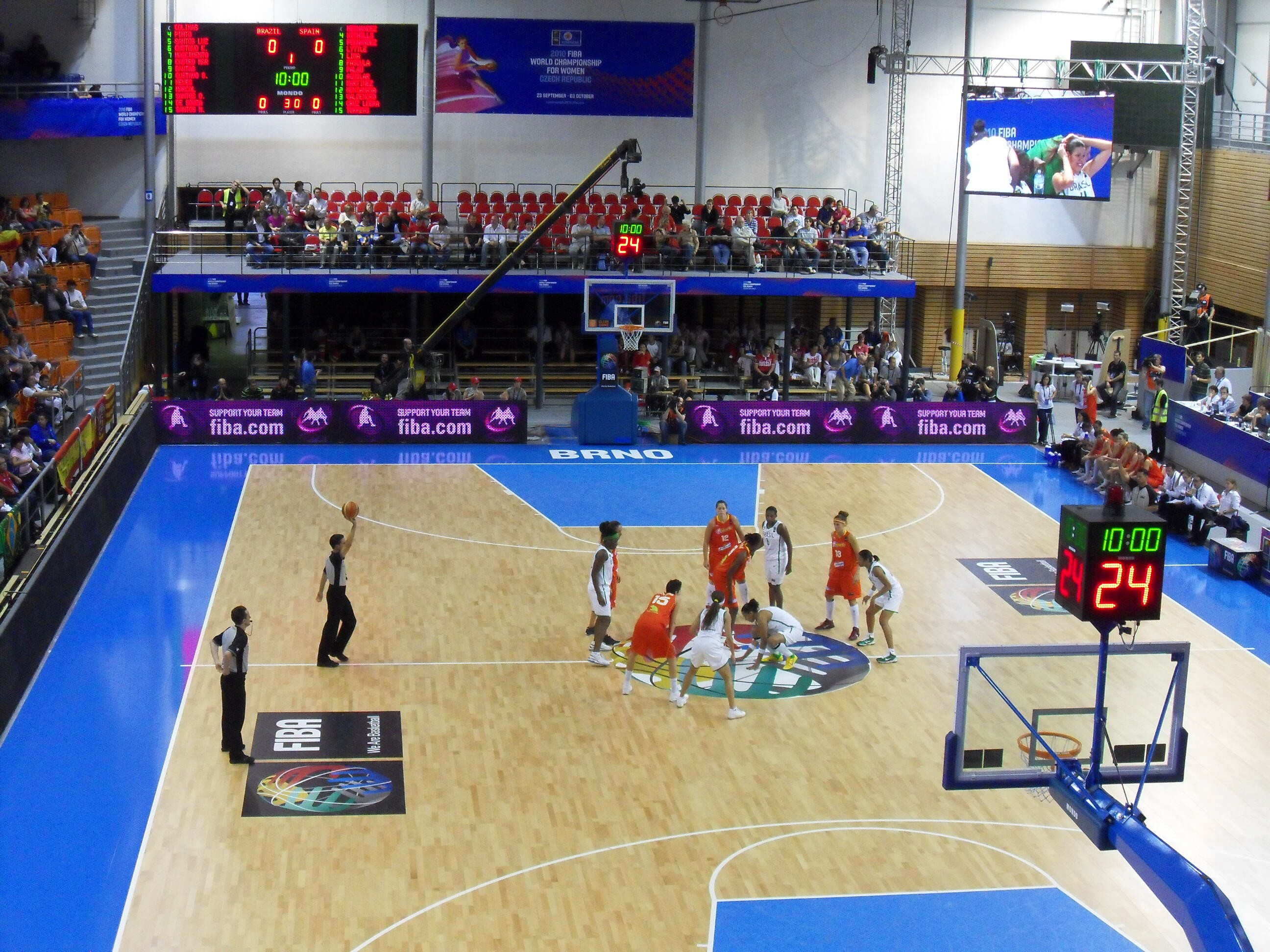 Brazil - Spain match at 2010 FIBA World Championship for Women, Brno, Czech Republic